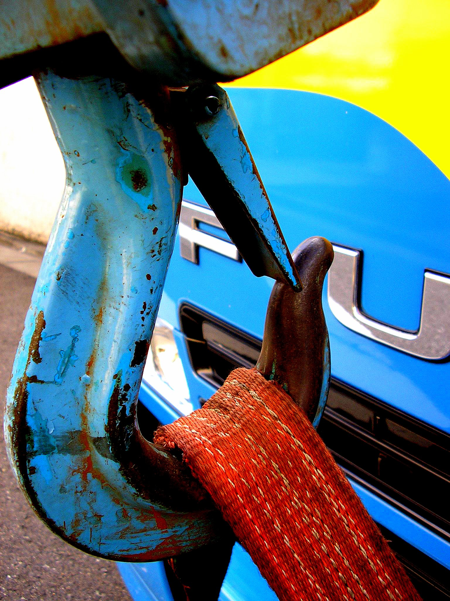 A blue lifting hook with lock ensuring straps do not fall off the hook during operation. Crane mounted on a Fuso truck